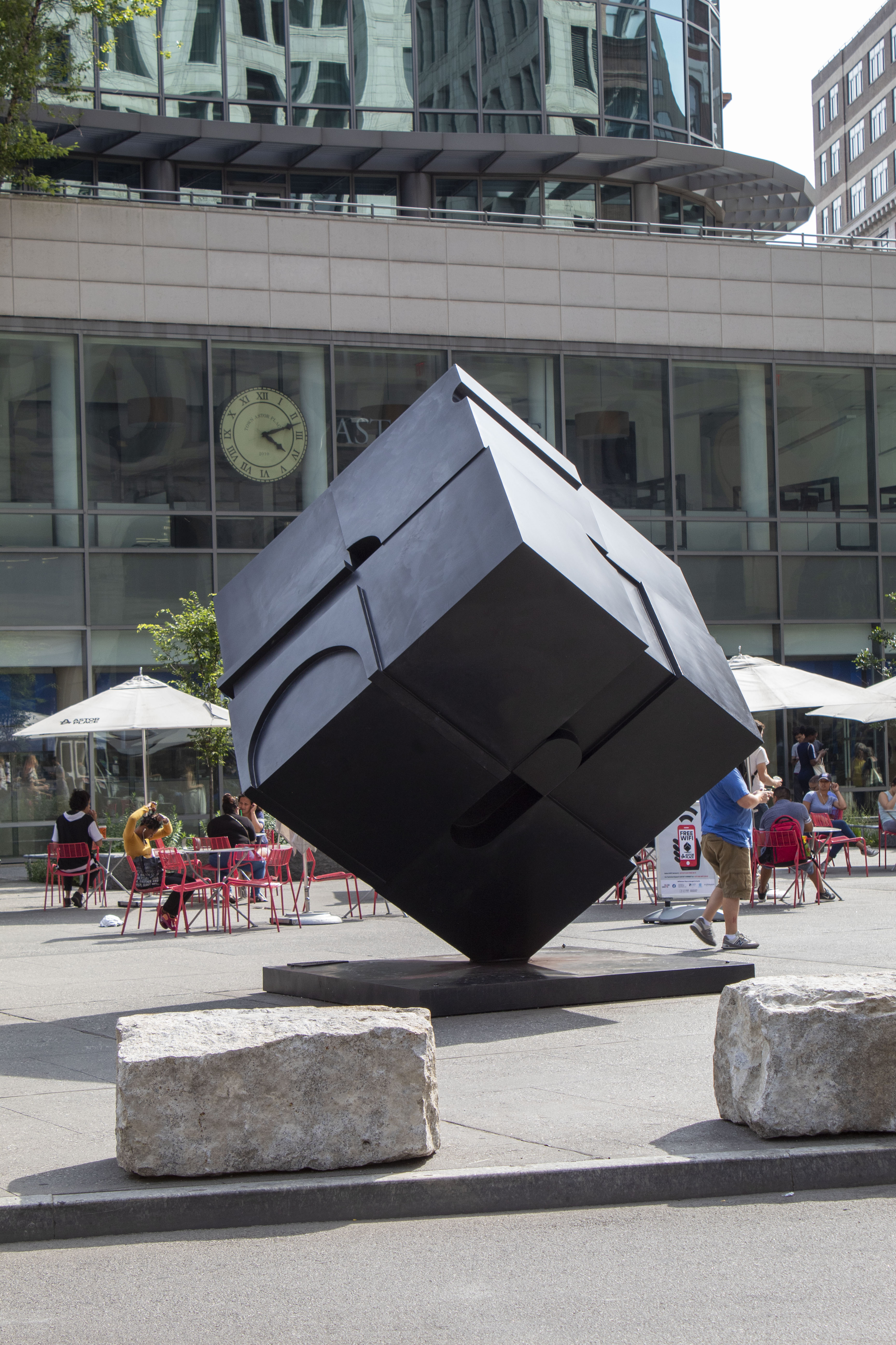 The Astor Place Alamo in front of an outside coffee shop